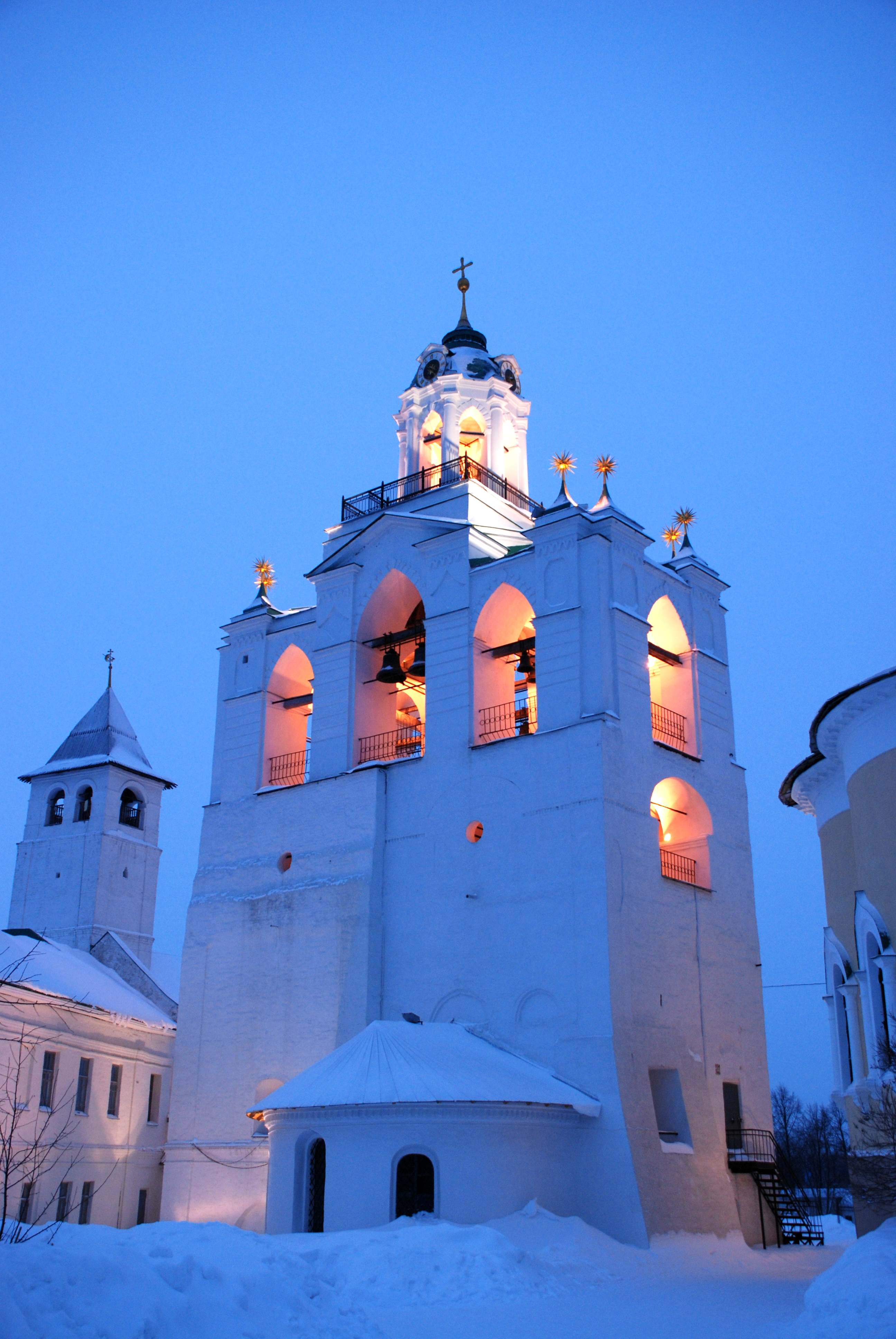 A church in Yaroslavl in the Morning